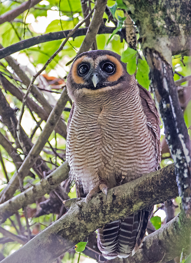 A Brown Wood Owl Strix leptogrammica at Surrey Bird Sanctuary, Welimada, Sri Lanka.